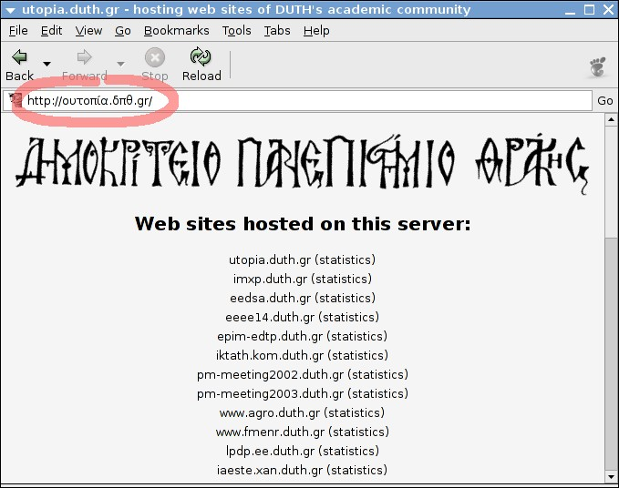 Internationalized domain name in Greek. Browser is Galeon, host shown is a public university.